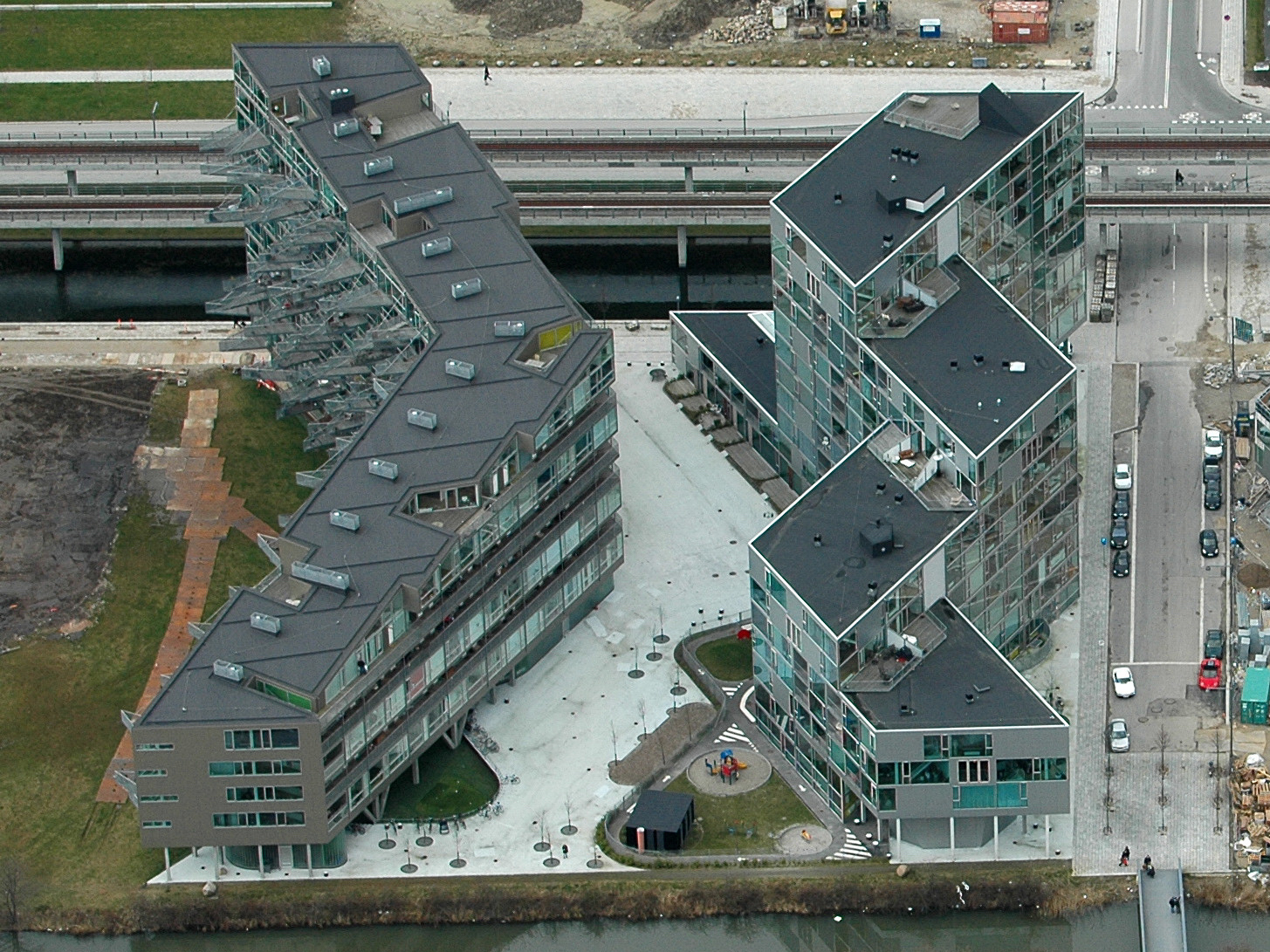 The two PLOT (Bjarke Ingels Group / JDS) Projects VM Houses and Mountain Dwelings in the Ørestad district of Copenhagen, Denmark